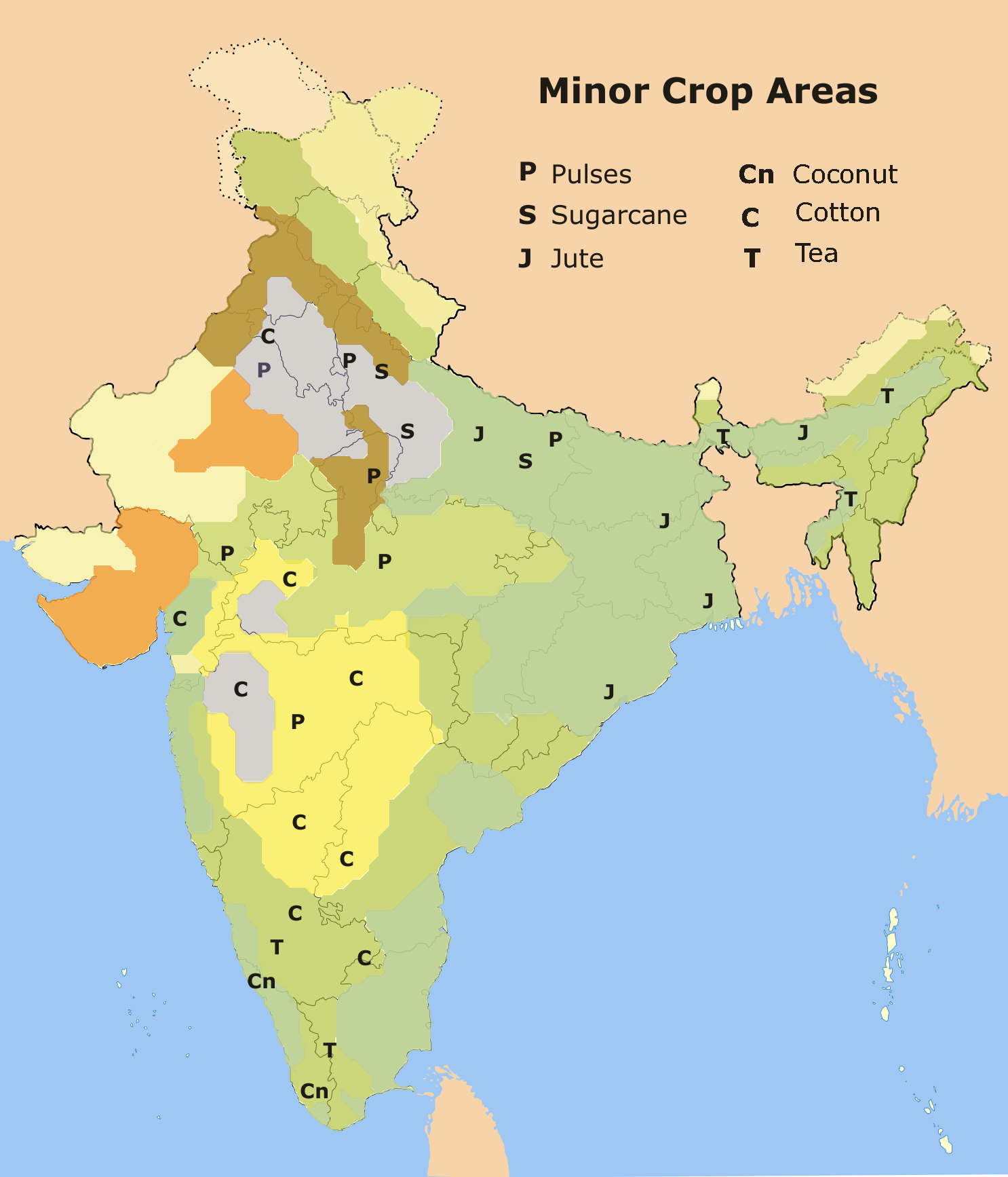 A map on the minor crop regions of India (1973 data).